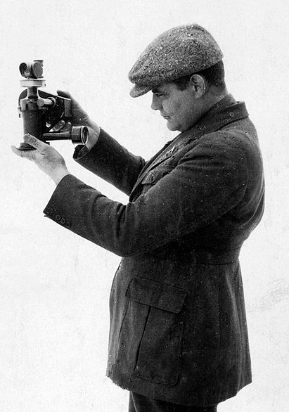 Norwegian aviation pioneer Hjalmar Riiser Larsen holding a device during the expedition led by Norwegian explorer Roald Amundsen (Roald Engelbregt Gravning Amundsen) in the polar regions. Antarctica, 1900s.